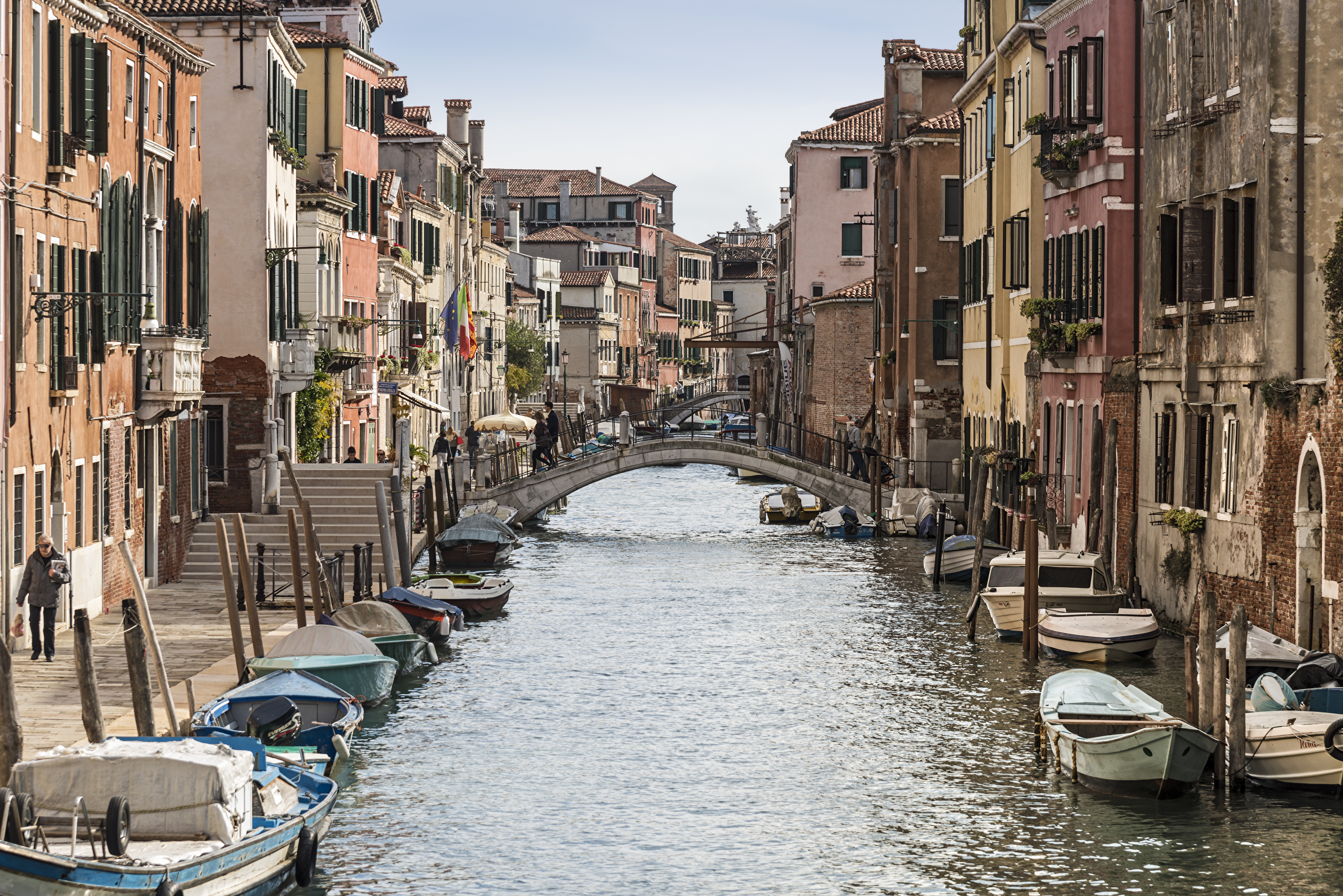 The "Rio della Sensa" on "Ponte de la Malvasia" to "Ponte del Forno" in Venice.